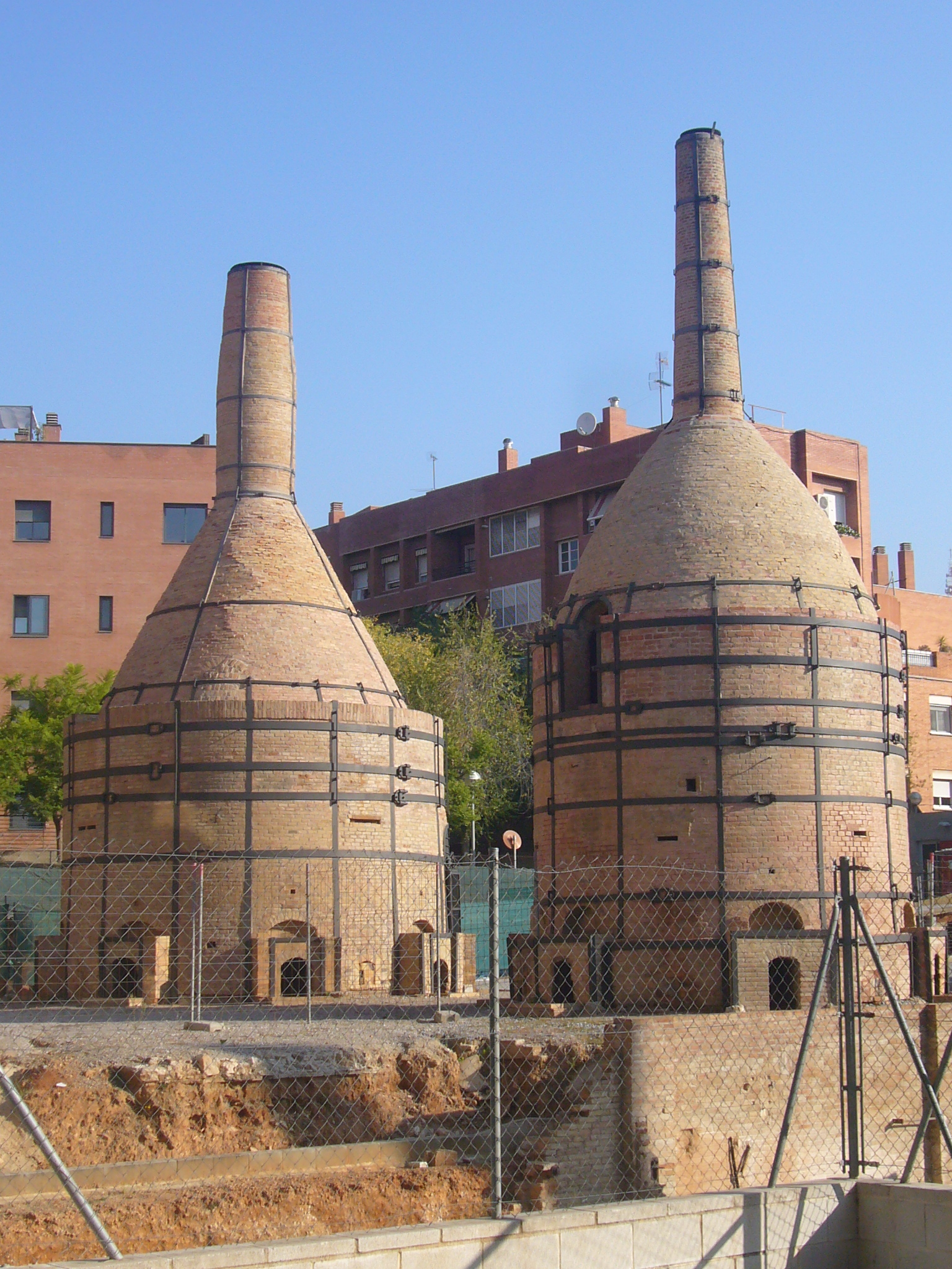 Two bottle kilns of the ceramics factory "Pujol i Bausis" in Esplugues de Llobregat, Catalonia. Were used to manufacture tiles and other ceramic objects.